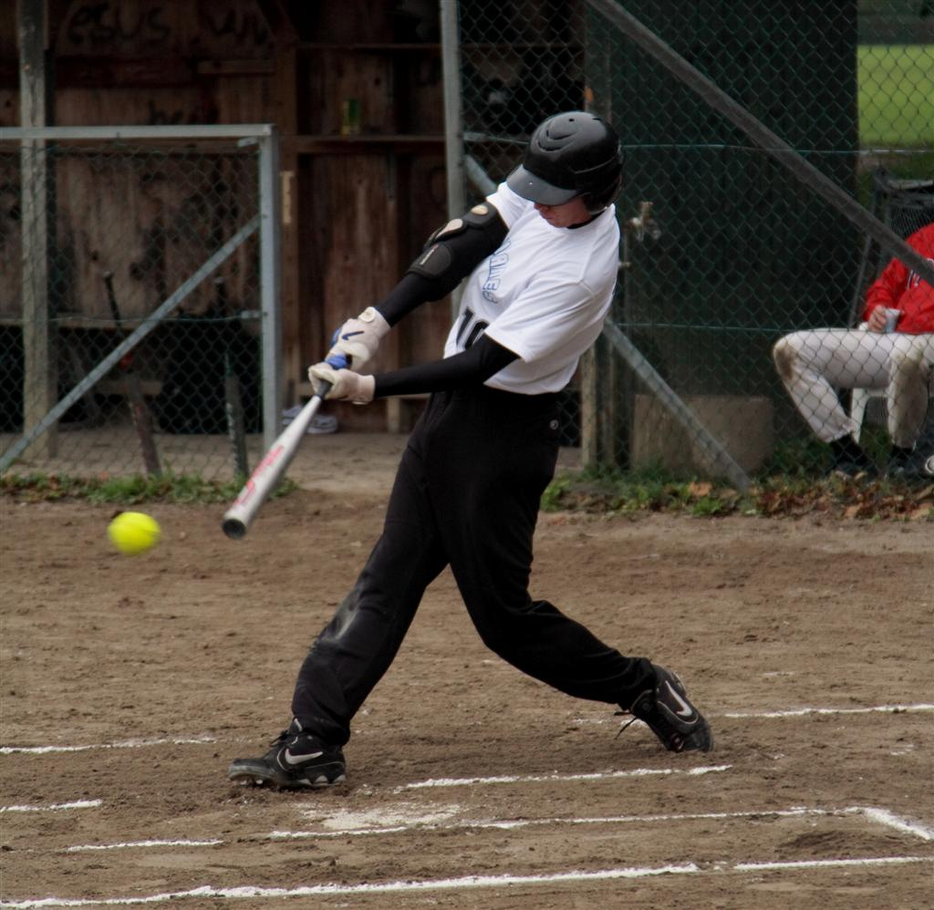 Left handed softball batterDansk: Venstrehåndet softball batter